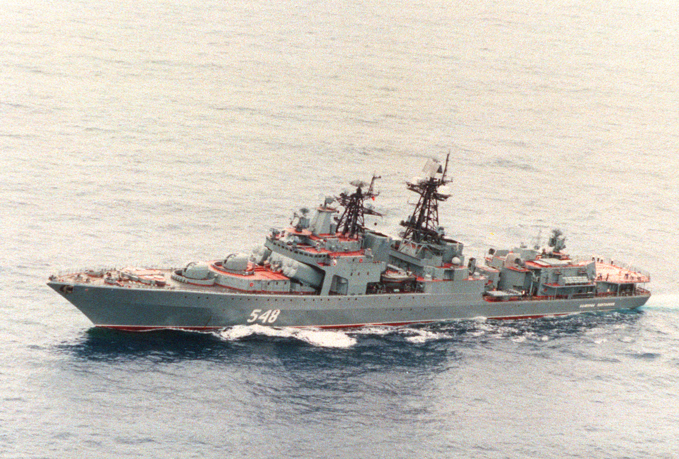 Aerial port bow view of the Russian Navy Pacific Fleet Udaloy class guided missile destroyer Admiral Panteleyev (DDG-548) underway